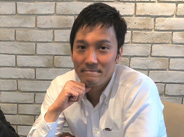 静恵一（2020年撮影）